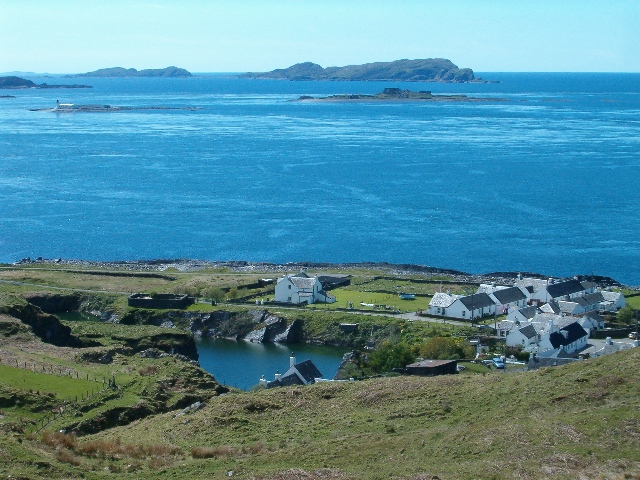 Cullipool from the east. Showing the flooded slate quarry Slate_Islands. The lighthouse at Fladda, the island of Belnahua and the Garvellachs are all visible.